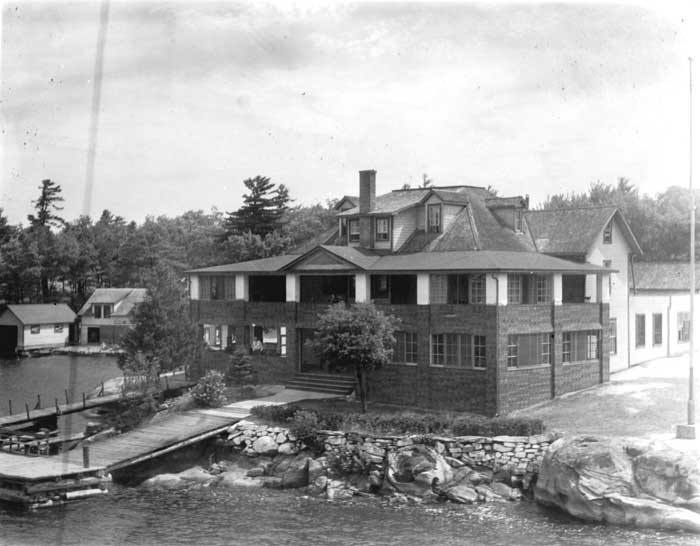 Digital Image Number: I0012388.JPG Title: Delawana Inn [at Honey Harbour] Date: [between 1910 and 1930] Creator: Ministry of Education Format: Black and white print Reference Code: RG 2-71 Item Reference Code: COH-13 This image is available from the Archives of OntarioThis tag does not indicate the copyright status of the attached work. A normal copyright tag is still required. See Commons:Licensing for more information.